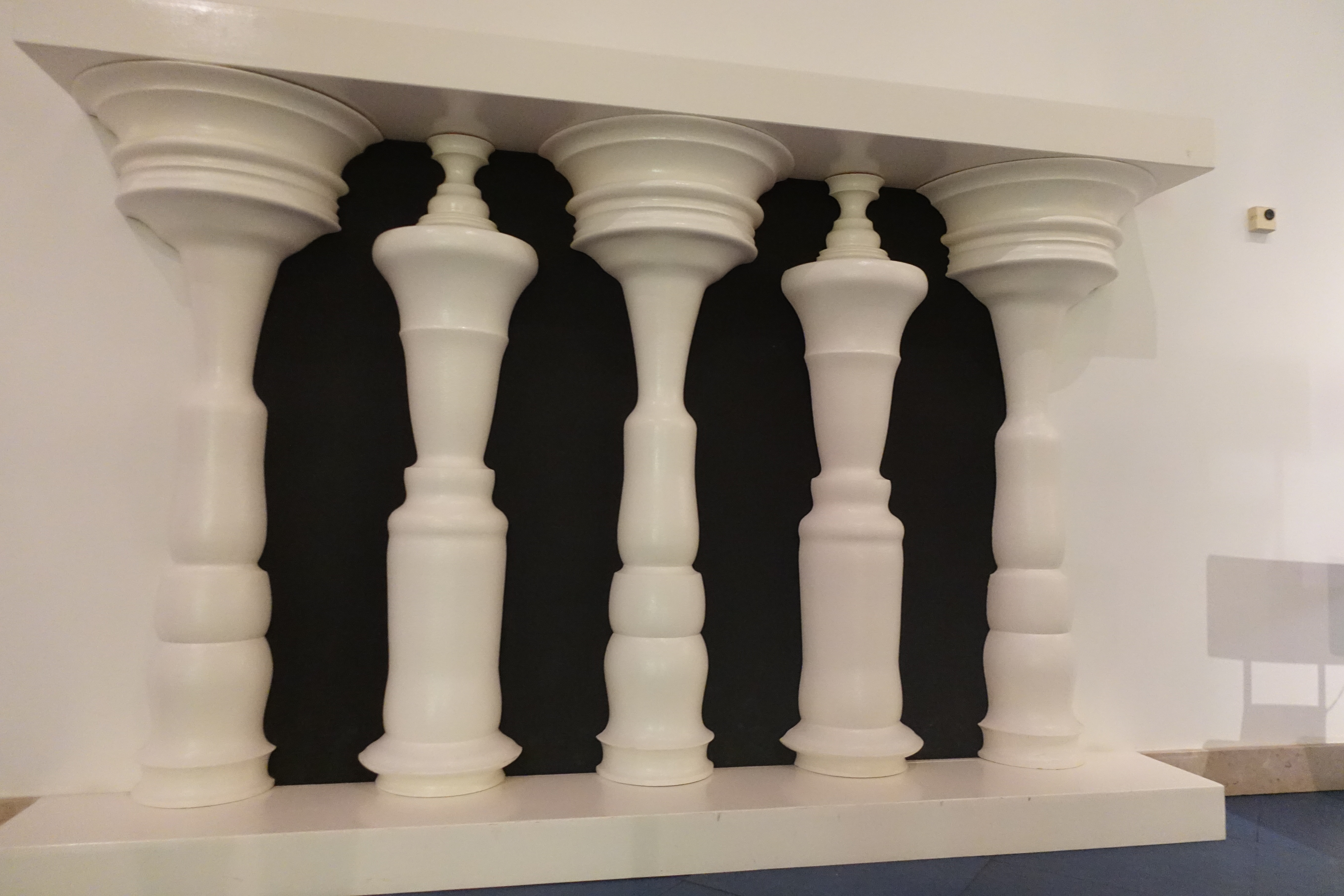 Pavilhão do Conhecimento, Lisbon, Portugal.